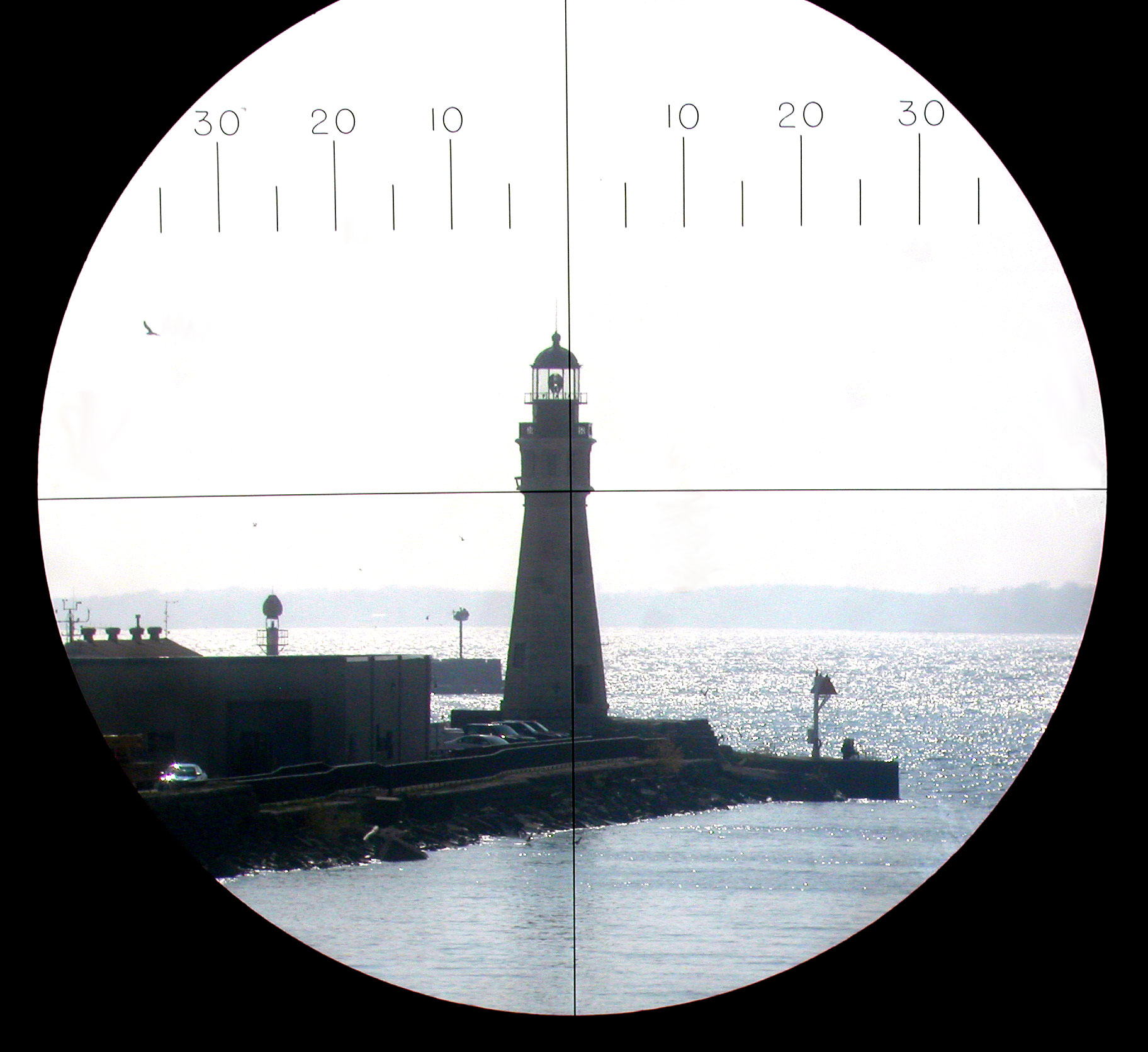 Buffalo (main) Light as seen through a periscope located in the 6"/50 triple turret onboard the USS Little Rock (CG-4)